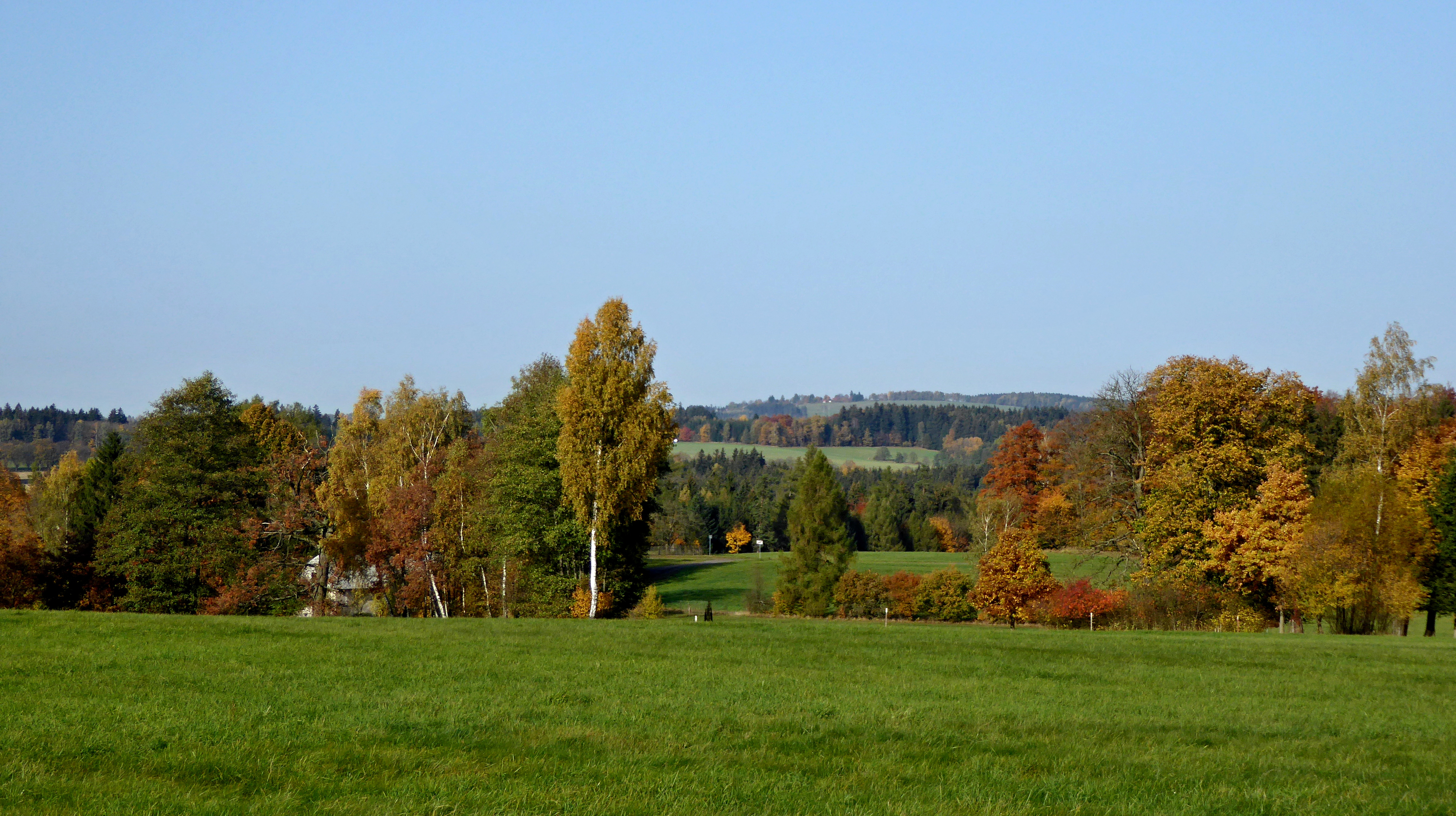 "Stružinec" is a hamlet lying on a slope north-northwest of the summit "Barchanec" (624 m above sea level), in the geomorphological district with name "Stružinecká" knoll hill. The constructions is hidden in the notch of the terrain under the tall trees, in the locality of the source of the no name brook and several small ponds. In the hamlet there are six monument protected trees (five linden and one elm). From the pastures above the hamlet "Stružinec", under of the locality with name "Bewitched Glade", view of the landscape of the Iron Mountains. The highest peak with geographical name "Vestec" (668 m) in the Protected Landscape Area Iron Mountains is also good visible – in the photo on the horizon right. Photo location: Czechia, Vysočina Region, town Ždírec nad Doubravou, "Stružinec" – settlement locality. Note: "Vestec" is located in the cadastral area of Slavíkov in Vysočina Region, in the territory of "Kameničská" highland (geomorphological district), of her the highest point is the peak with the geographical name "U oběšeného" in the cadastral area of Svratouch in the Pardubice Region.